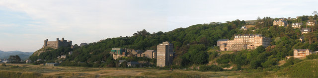 Harlech Harlech Castle, Harlech College and the soon to be demolished St Davids hotel.